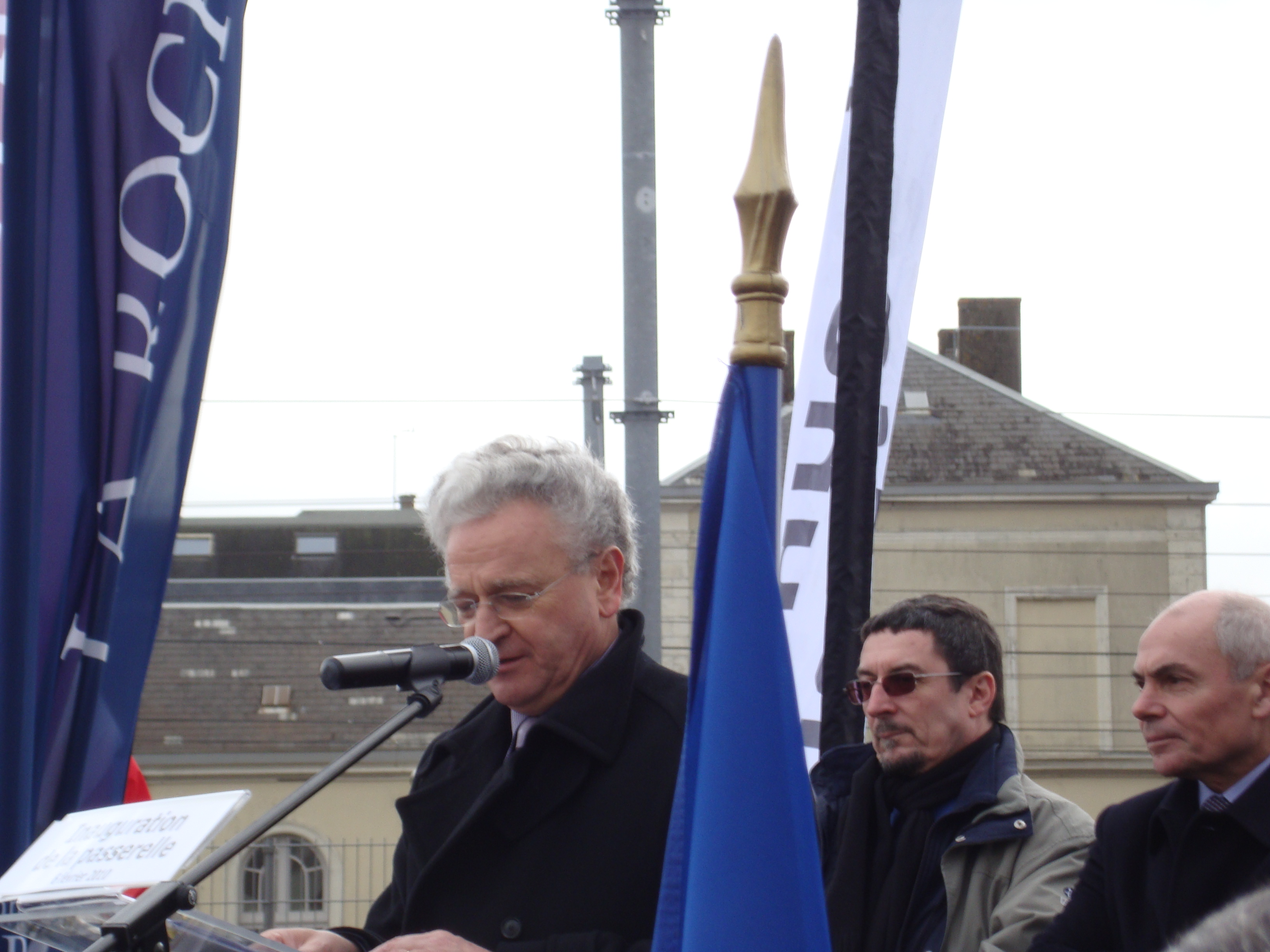 Pierre Regnault